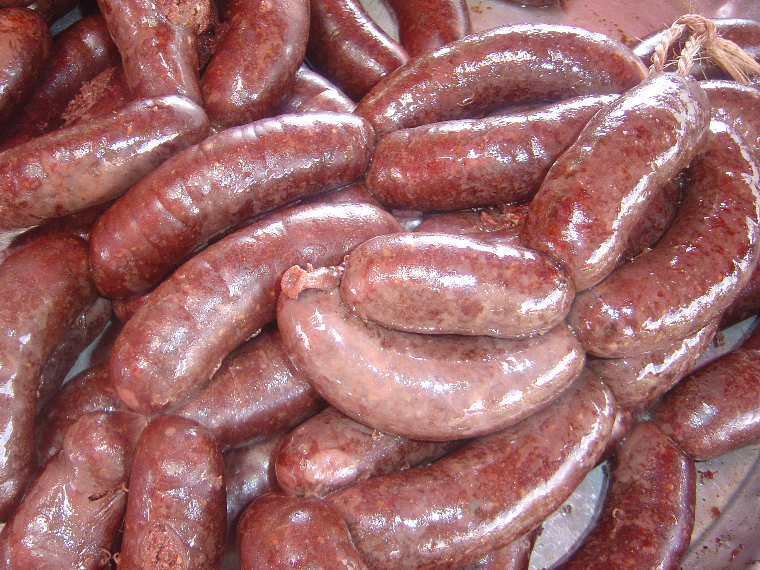 Sausages from Réunion Island